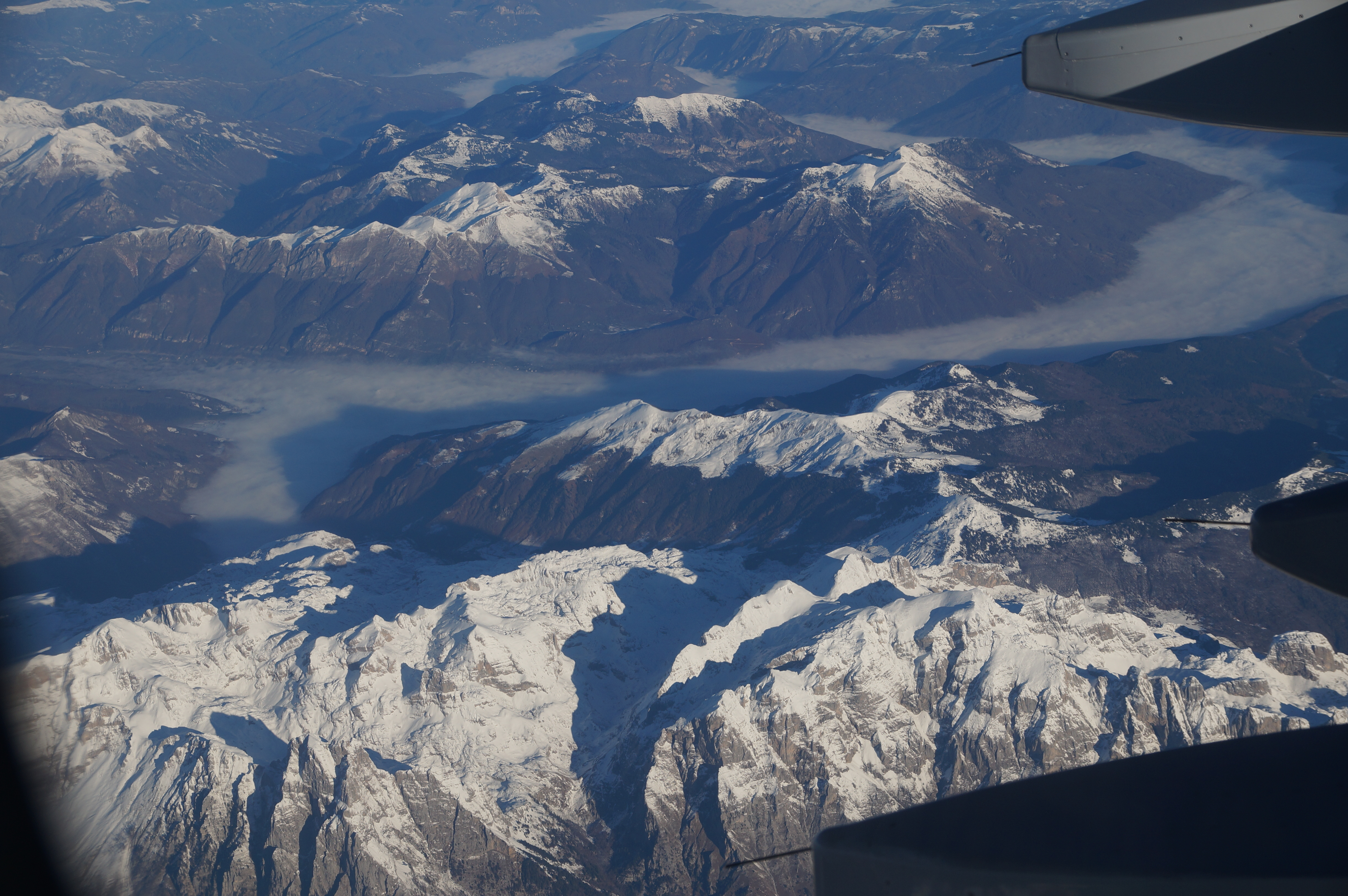 Prokletije Mountains in Montenegro: Kolata in front, Lim valley with Plav in the center, Visitor above